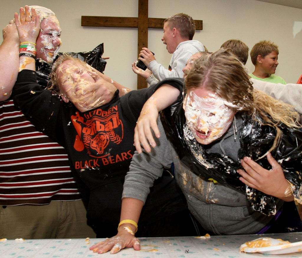 Ryan Bonngard, 22, left, of Connorsville, Wis., Anna Zimmerman, 16, middle, of Mellen, Wis., and Nikke Vinson, 21, right, of Eau Claire, Wis., all counselors at Assembly Park Bible Camp, in Lake Nebagmon, Wis., on Thursday Aug. 2, 2007, get a face full of pudding and whipped cream. What was supposed to be a pie eating contest, ended up being a pie face instead for the rookie counselors, at the Assembly of God denomination camp, on the final day of camp. (AP PHOTO/The Country Today/Paul M. Walsh)